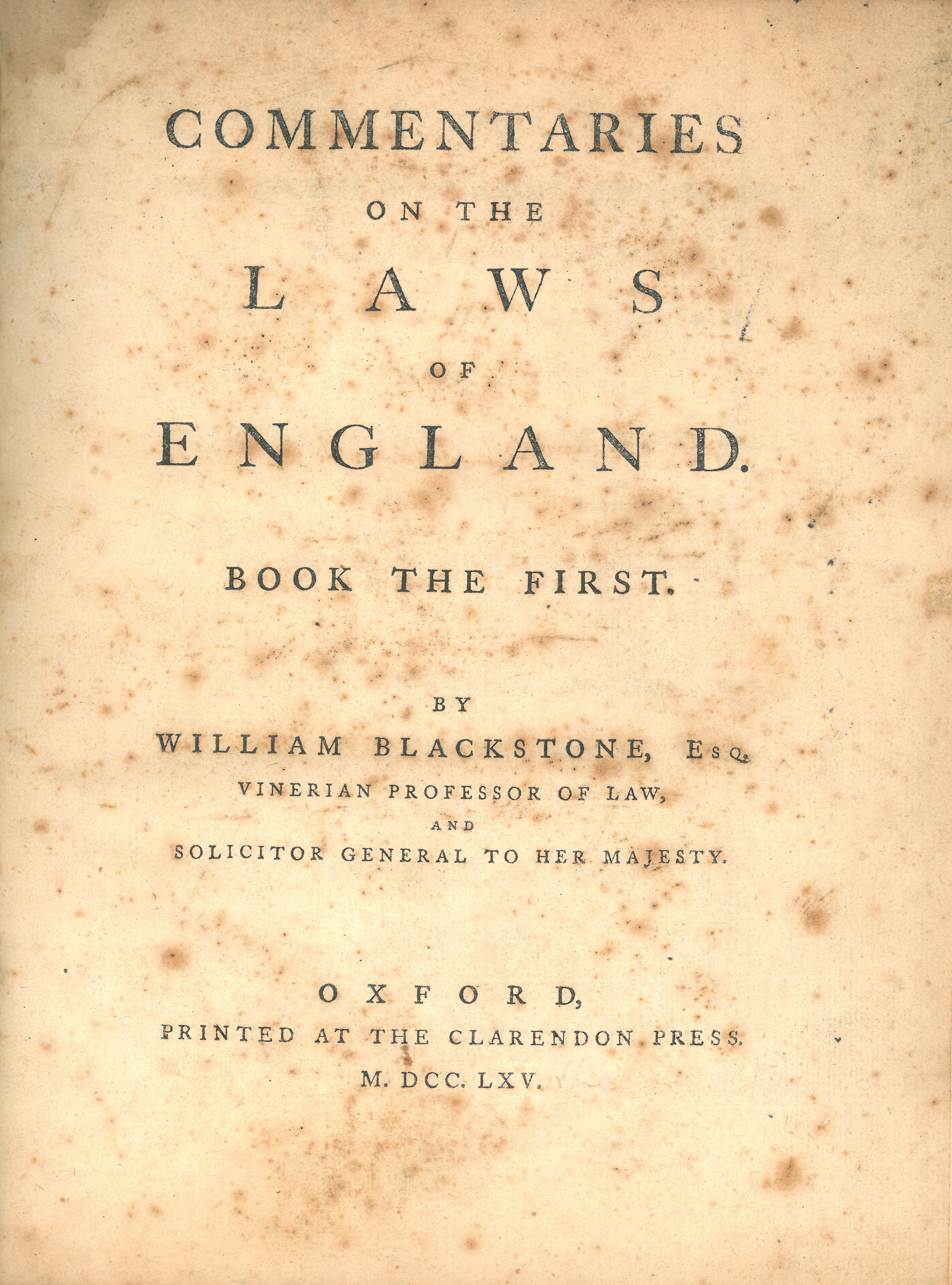 Title page of William Blackstone (1765) Commentaries on the Laws of England. Book the First. By William Blackstone, Esq. Vinerian Professor of Law, and Solicitor General to Her Majesty (1st ed.), Oxford: Printed at the Clarendon Press OCLC: 65350522.